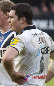 Referee Tim Wigglesworth shows Bath's Francois Louw a red card for an off-the-ball elbow. Leicester Tigers vs Bath, Aviva Premiership, Welford Road, Saturday 1st December 2012